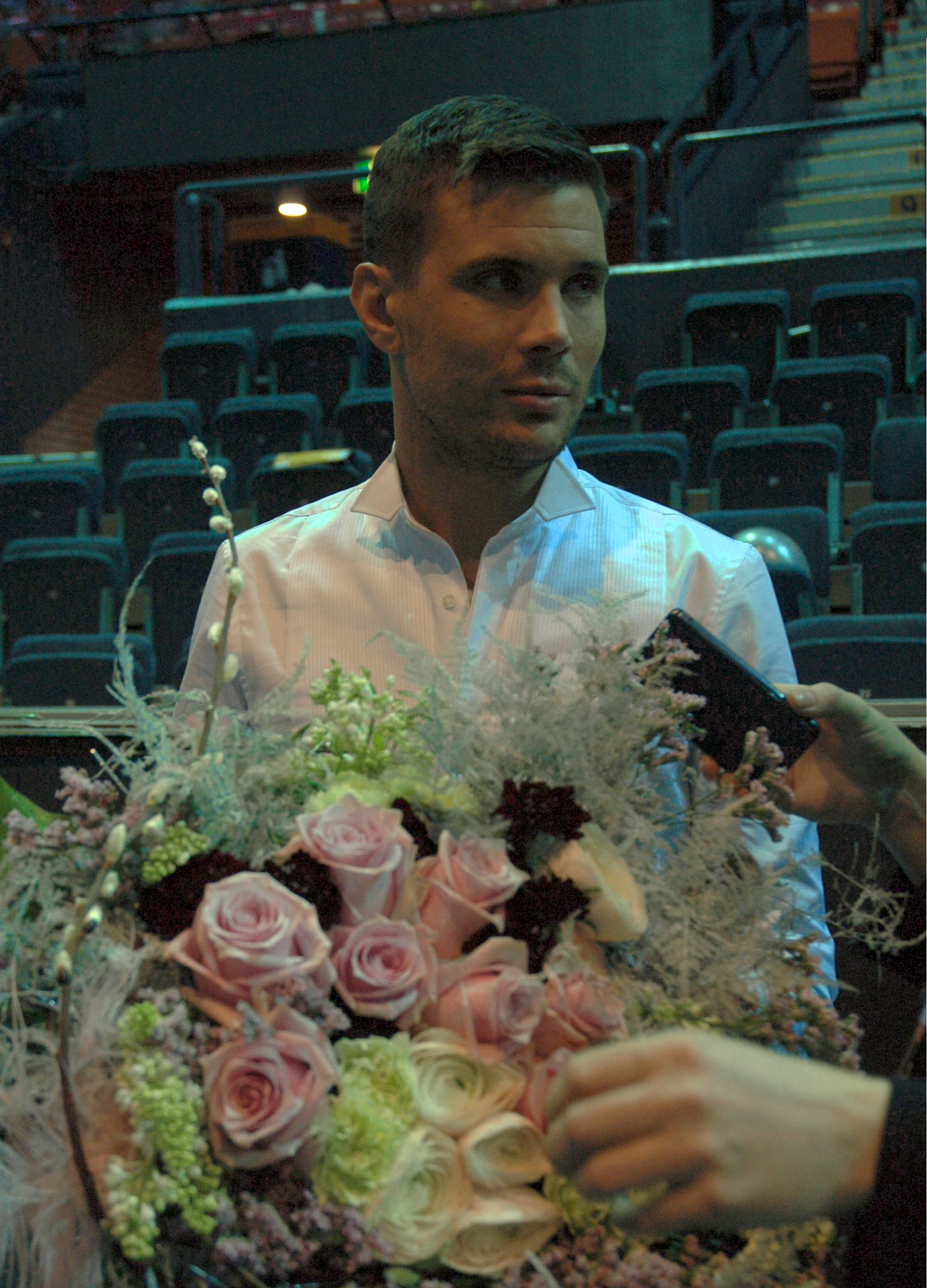 Swedish singer Robin Bengtsson after first semi-final of Melodifestivalen 2016